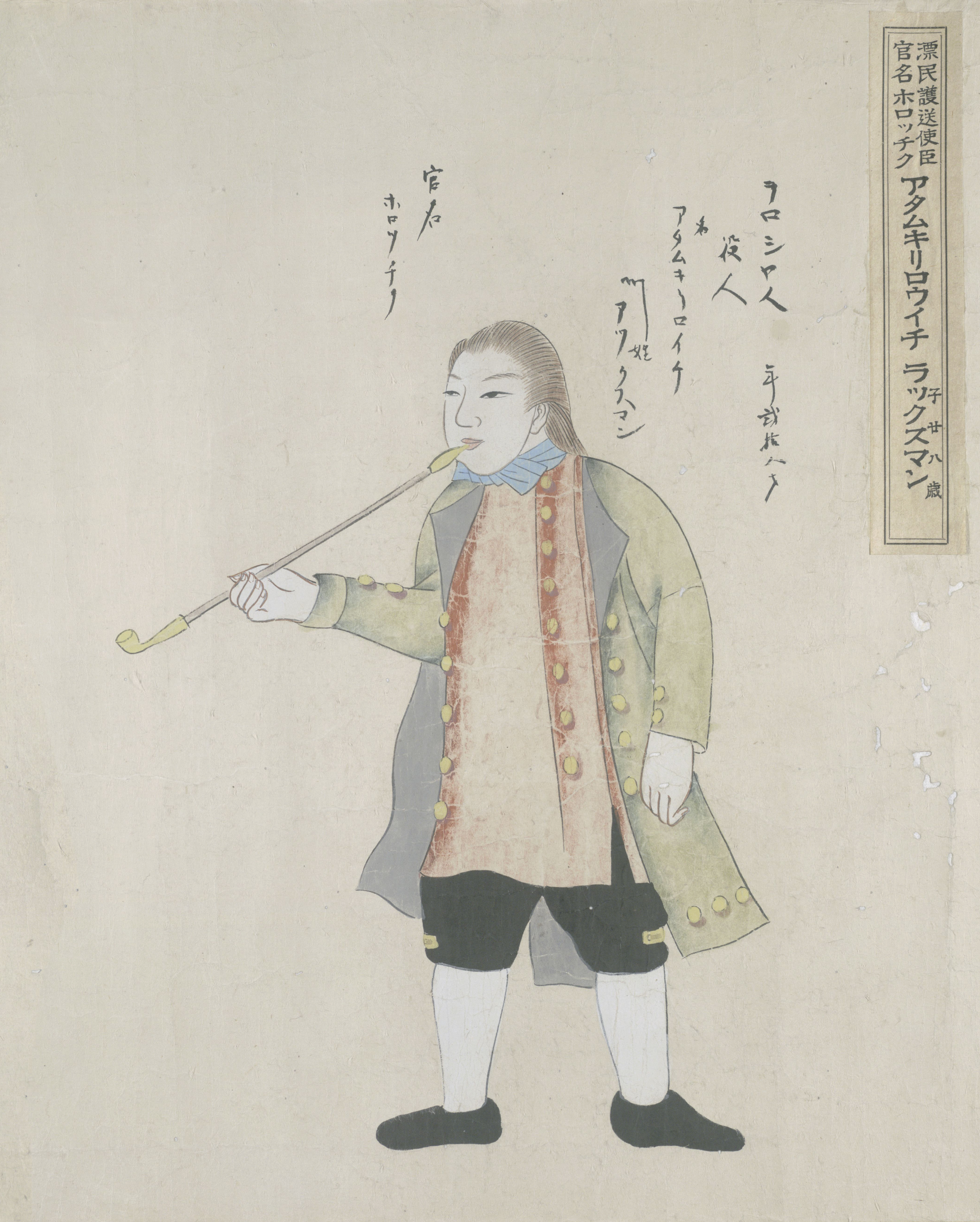 Adam Kirillovich Laxman (1766–1806?), from "Portaits of the Crew of the Russian Ship Ekaterina that Arrived at Hakodate, Entering Port on the Eighth Day of the Sixth Month of Kansei 5 (1793) and Departing on the Seventeenth Day of the Seventh Month", Hakodate City Central Library, Hakodate, Hokkaido, Japan